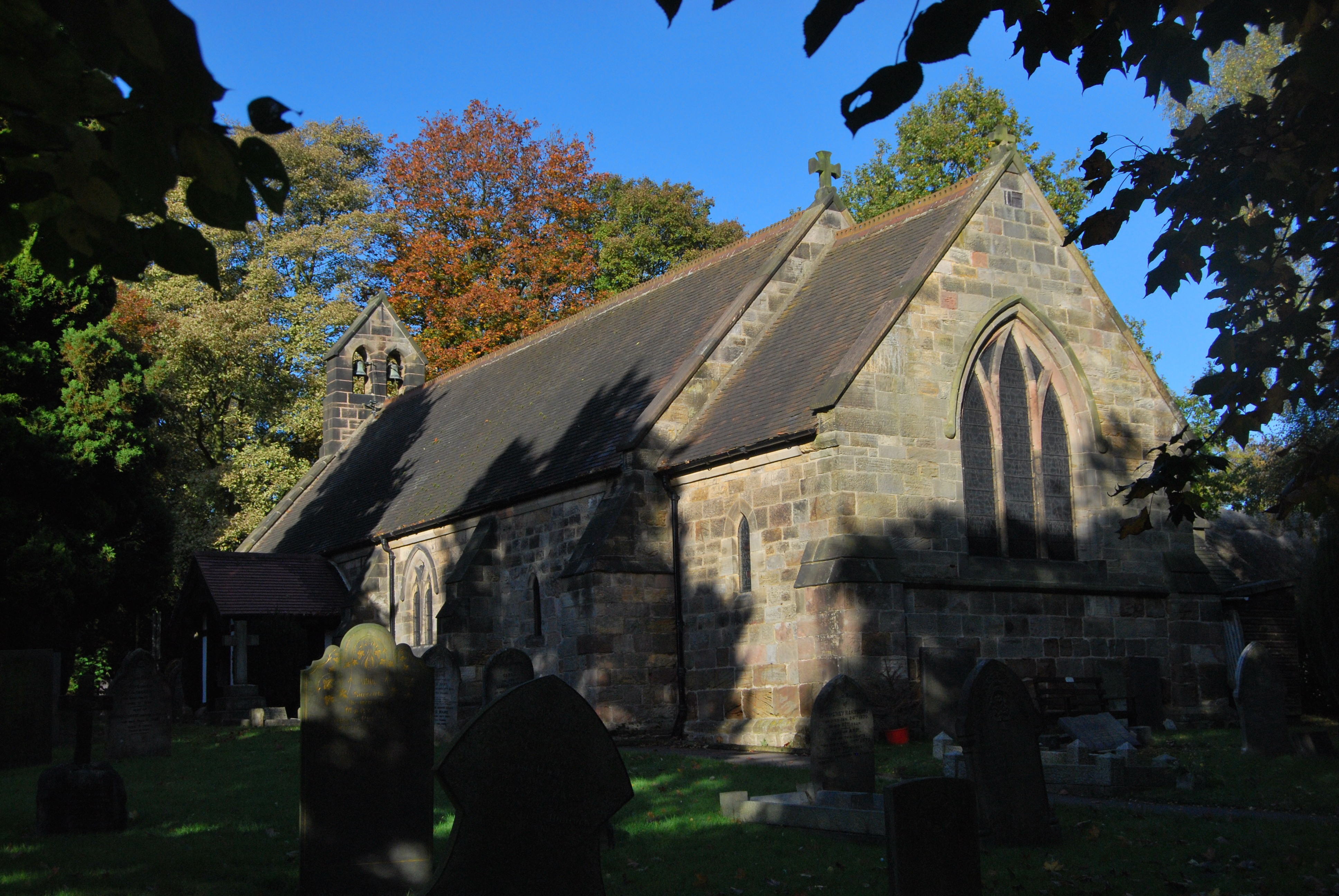 St Andrew's parish church, Stanley, Derbyshire, seen from the southeast